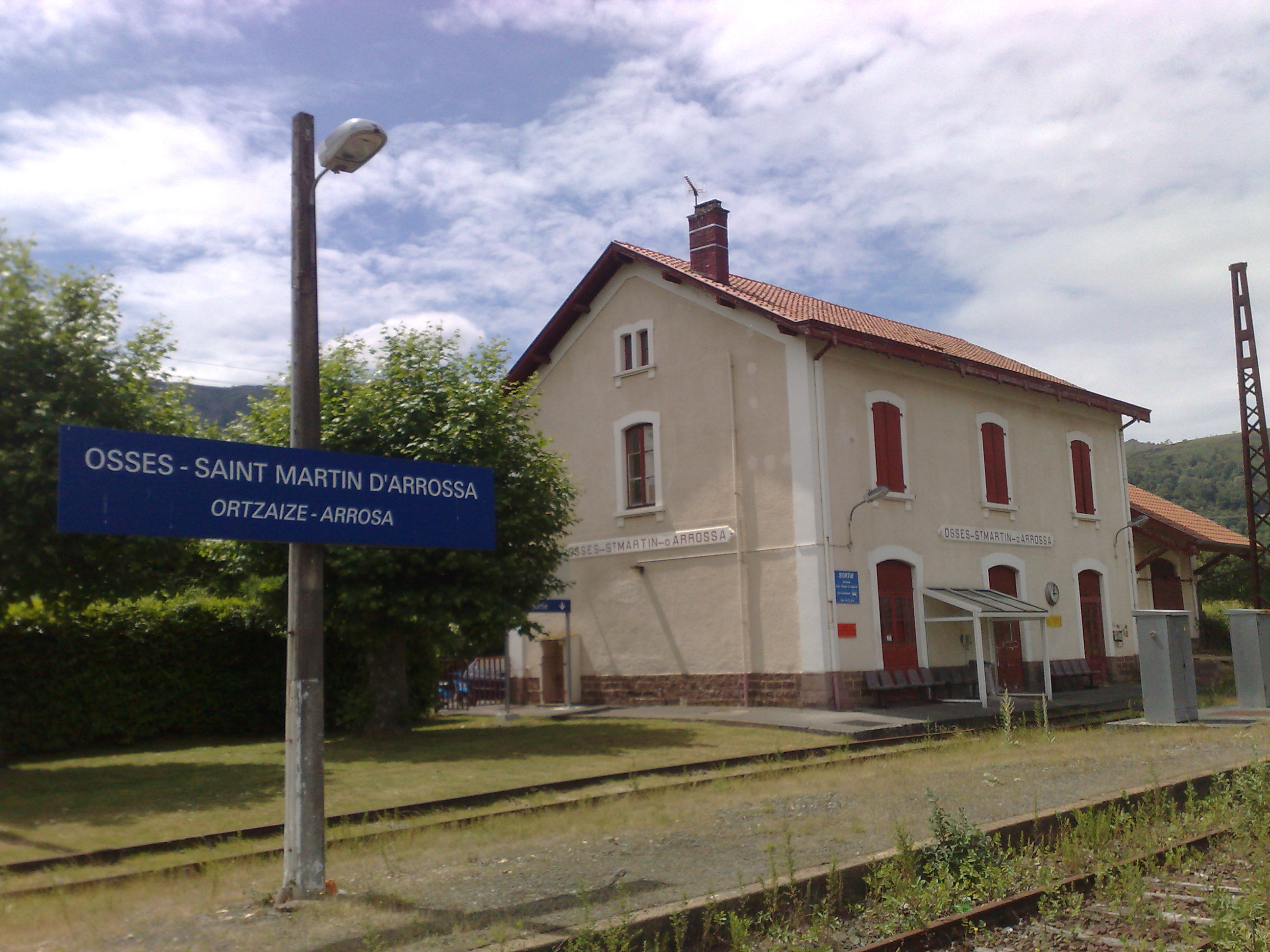 Ortzaize-Arrosa train station in Arrosa (fr Saint-Martin-d'Arrossa), Lower Navarre, Basque Country.